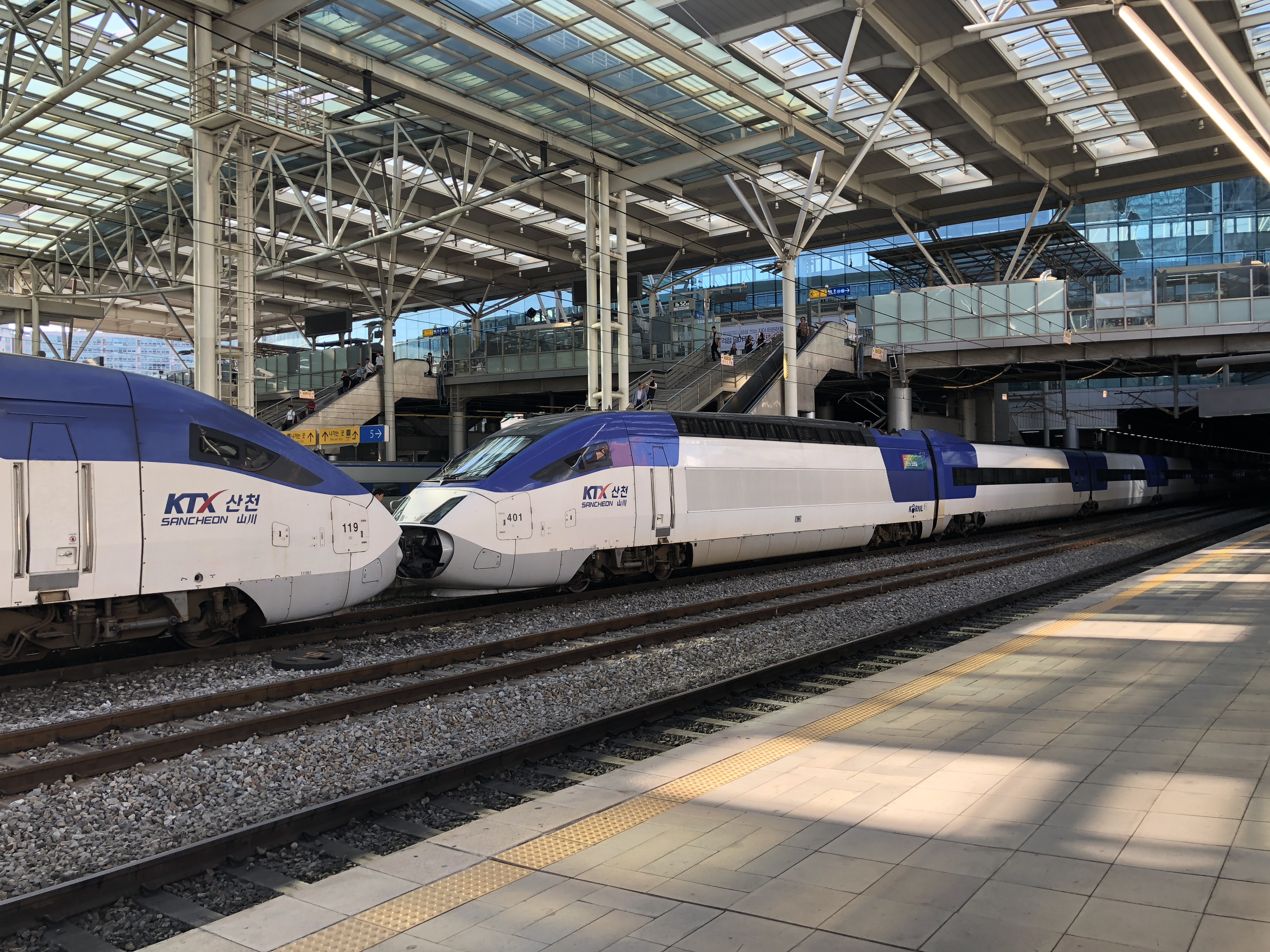 KTX-II connected